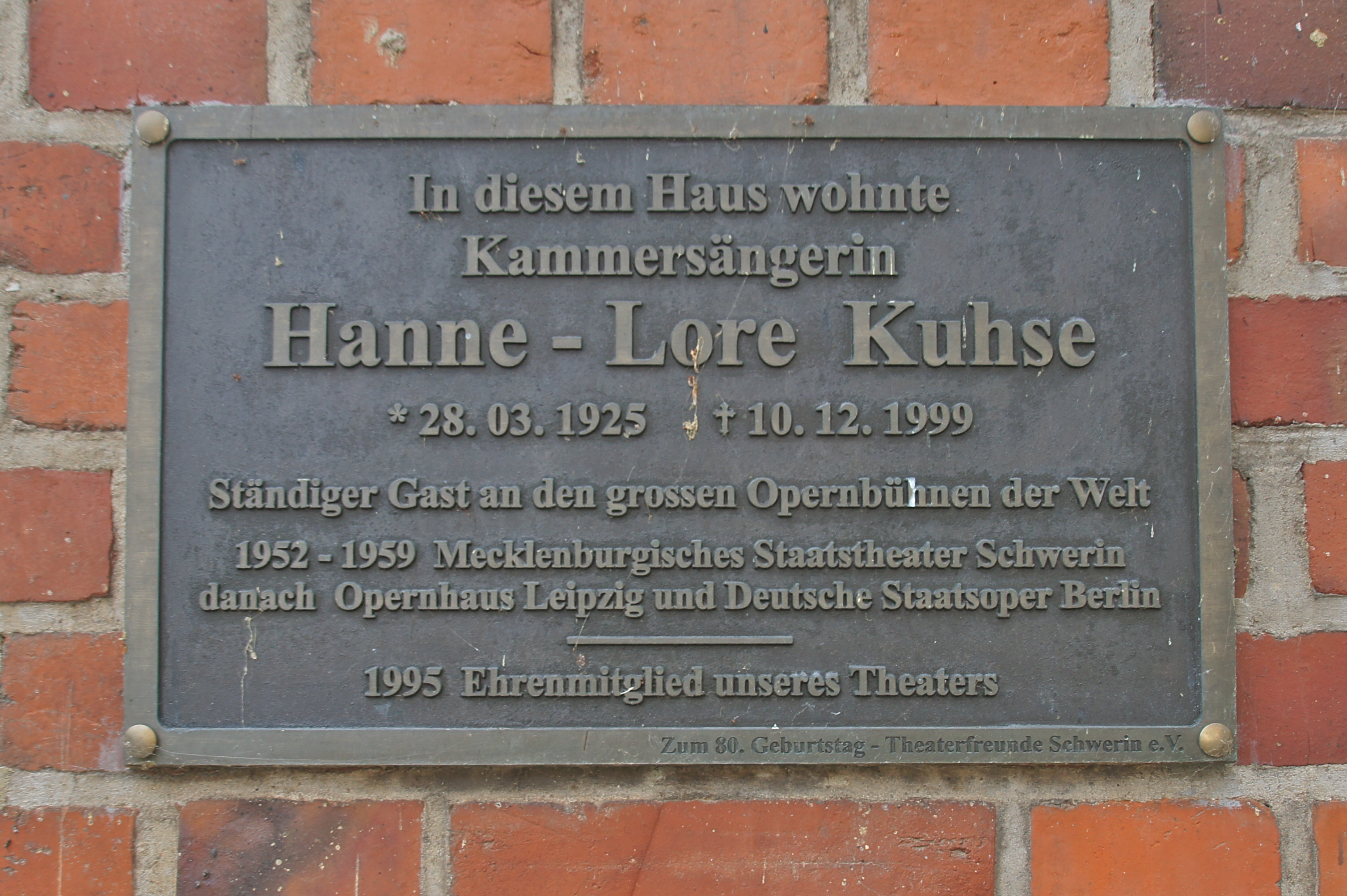 Schwerin, Germany: Plaque at the house where Hanne-Lore Kuhse lived